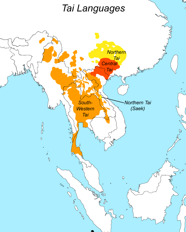 Geographical distribution of the Tai-Kadai phylum. Classification according to David B. Solnit.